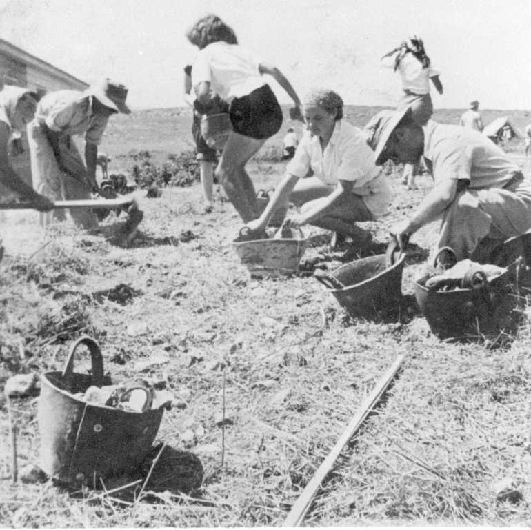 The Palmach, Settlements in Israel